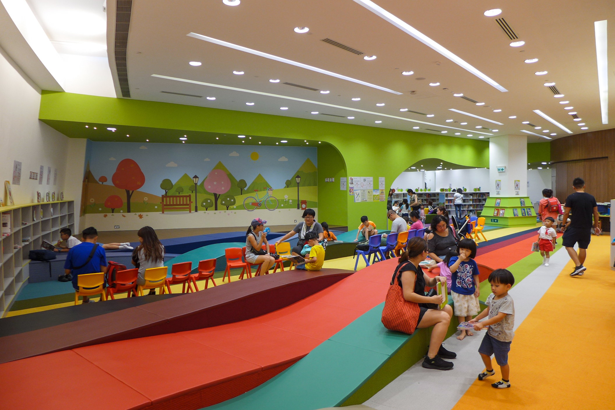 Yuen Long Public Library Children library